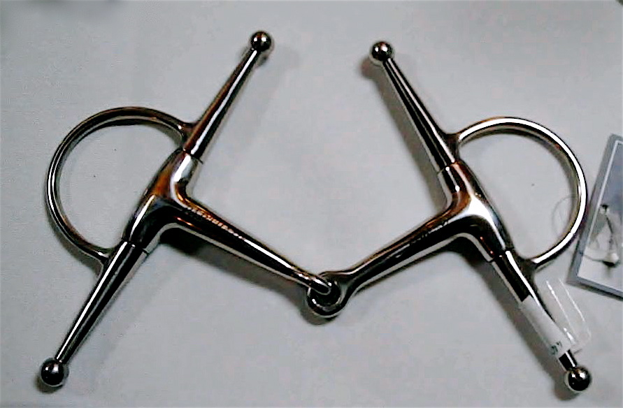 Full cheek snaffle bit, stainless steel